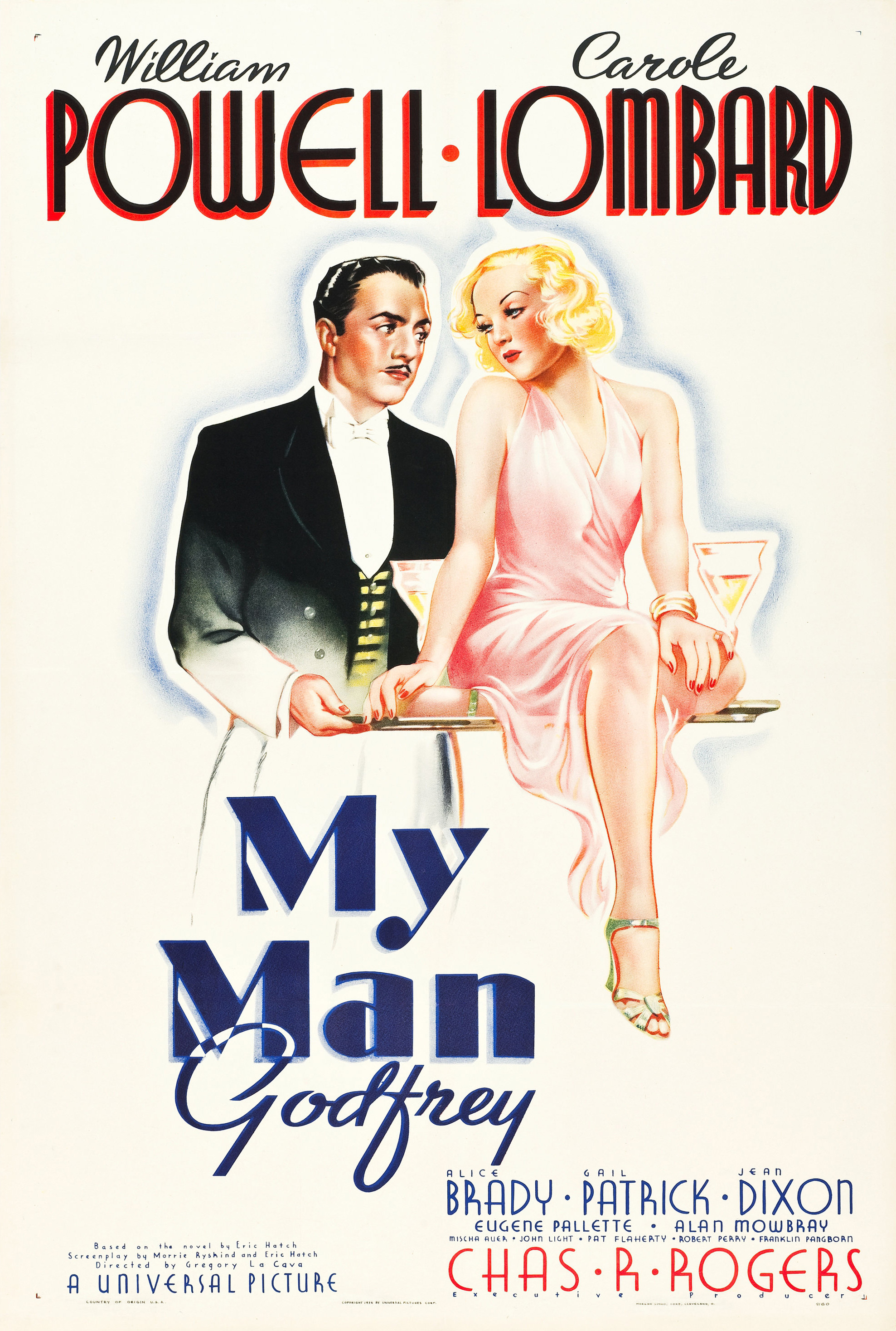 "Style C" theatrical poster for the American release of the 1936 film My Man Godfrey.